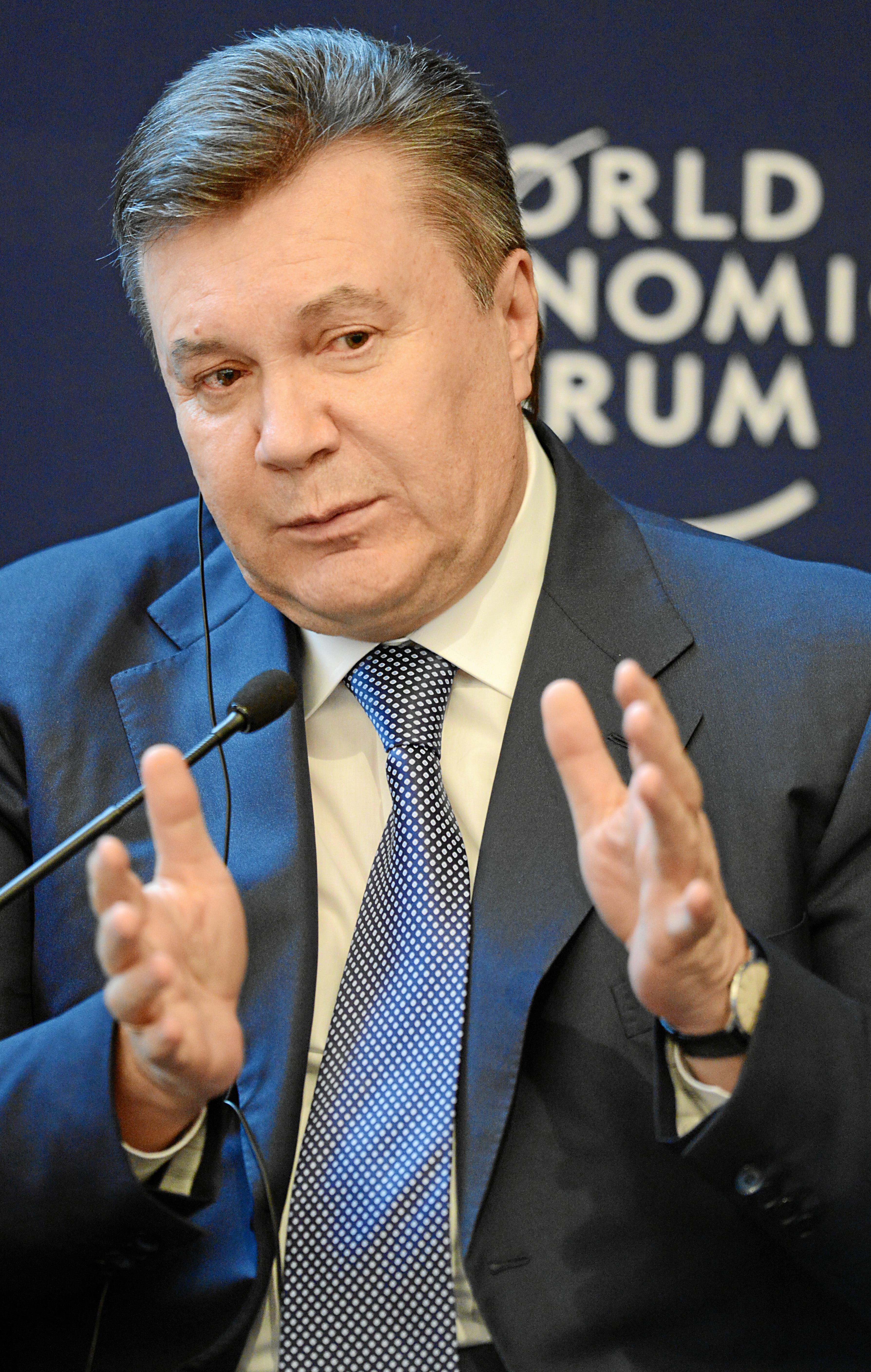 DAVOS/SWITZERLAND, 24JAN13 - Viktor Yanukovych, President of Ukraine gestures while speaking during the session 'Accelerating Infrastructure Development' at the Annual Meeting 2013 of the World Economic Forum in Davos, Switzerland, January 24, 2013. . . Copyright by World Economic Forum. . Michael Wuertenberg